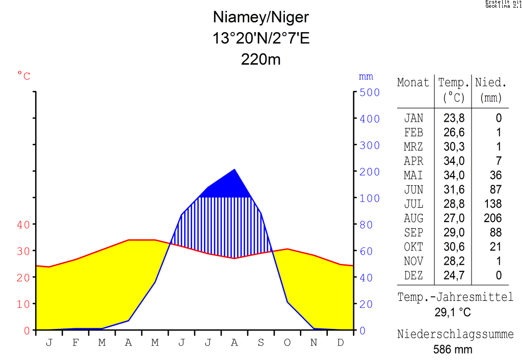 climate chart in the format by Walther and Lieth, metric, °Celsisus and millimeters, made with Geoklima 2.1 DateOctober 2006SourceSoftware: Geoklima 2.1 Website GeoklimaAuthorHedwig in WashingtonPermission (Reusing this file) Own work, attribution required (Multi-license with GFDL and Creative Commons CC-BY 2.5)